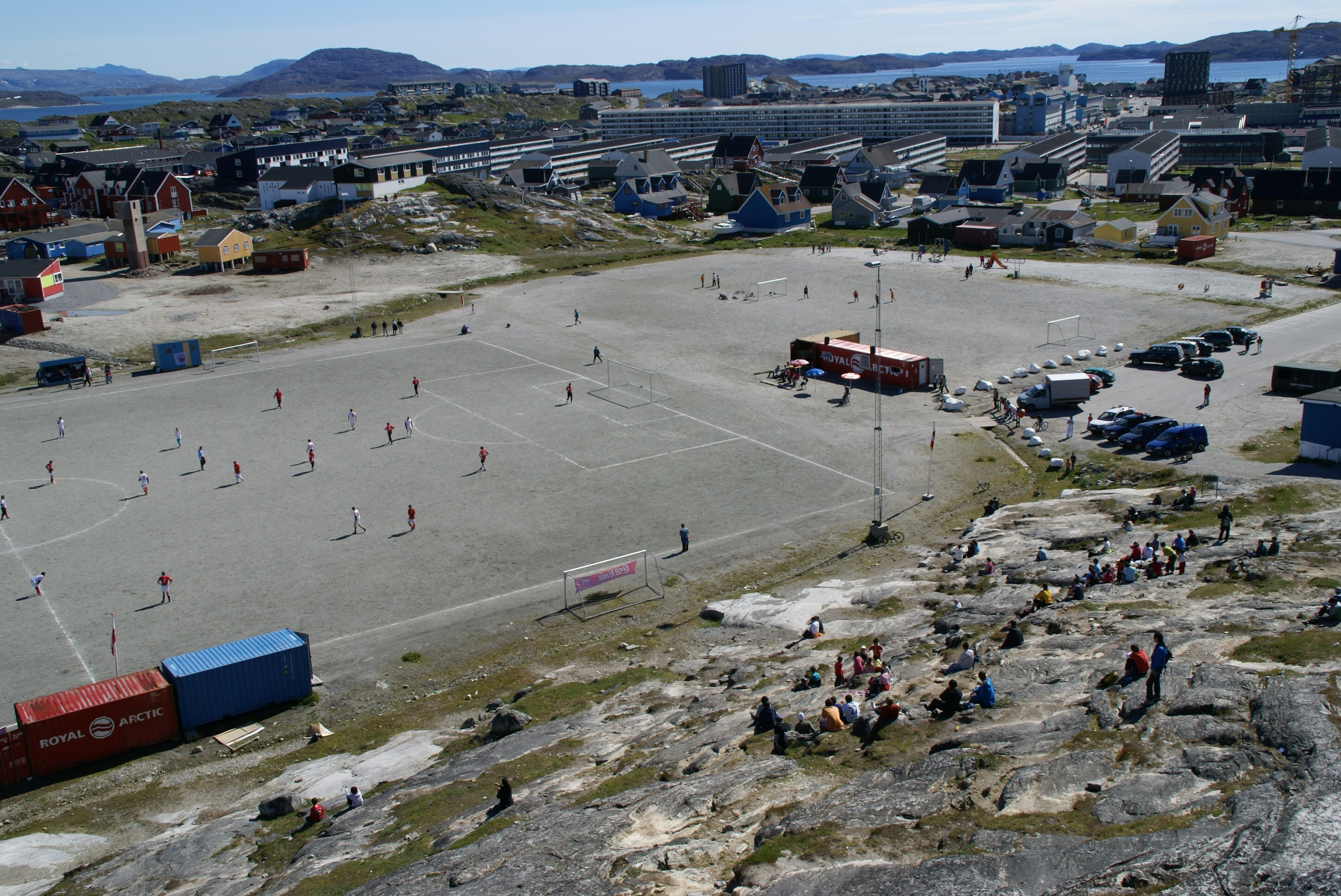 Nuuk Stadium in Nuuk, Greenland